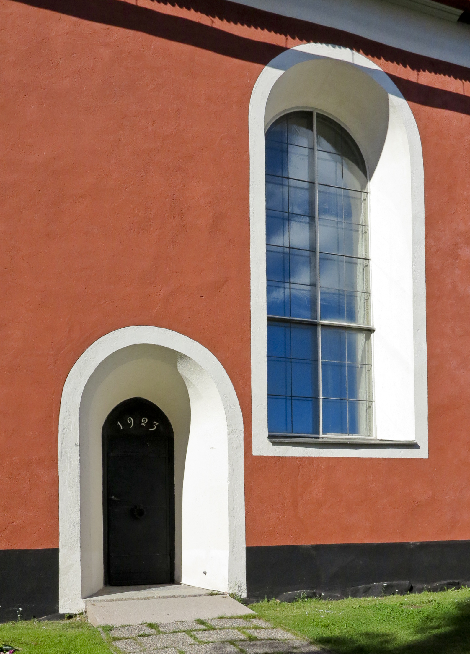 Kalix church, Norrbotten, Sweden